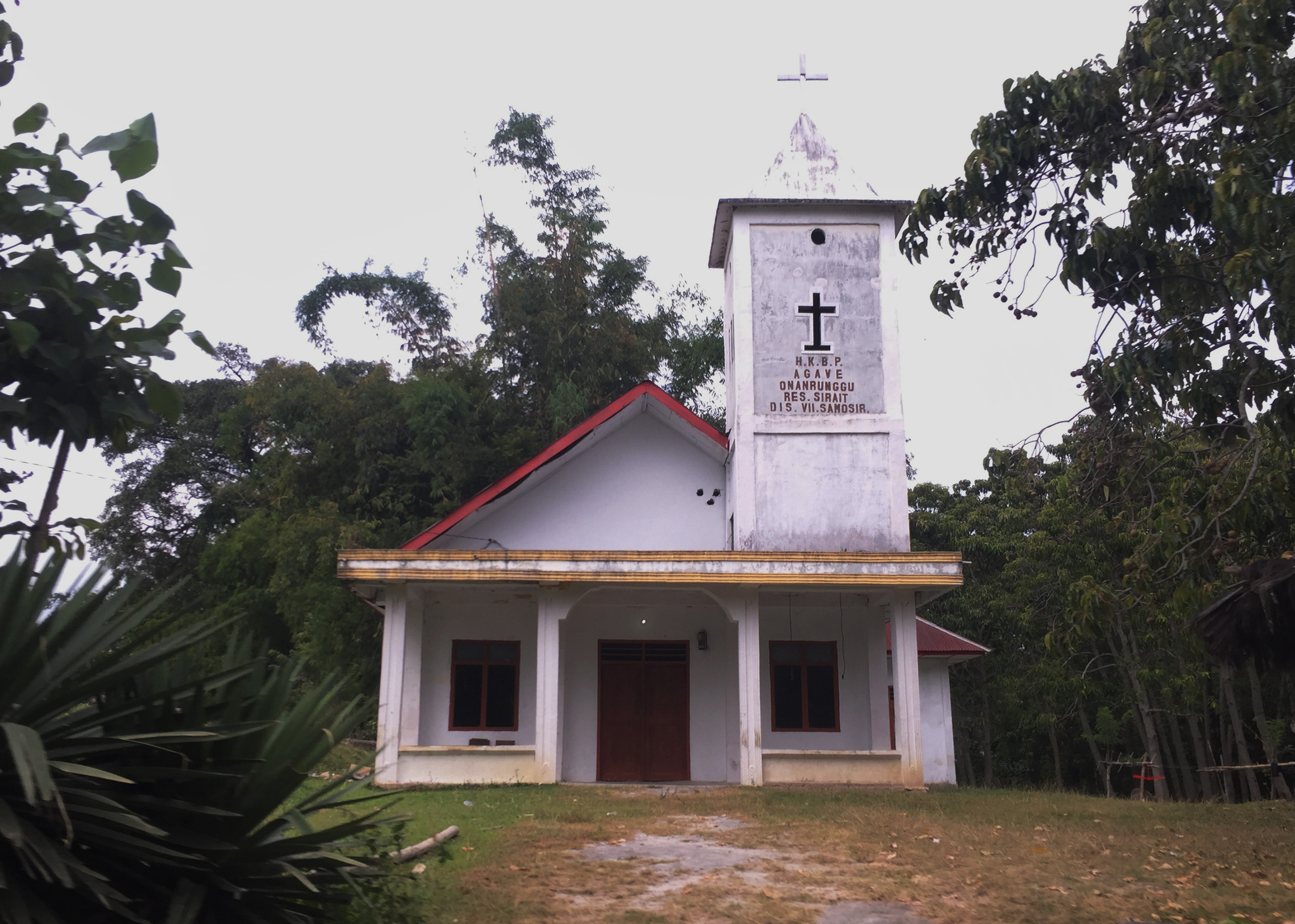 HKBP Agave Onan Runggu, Church in Onan Runggu, Samosir